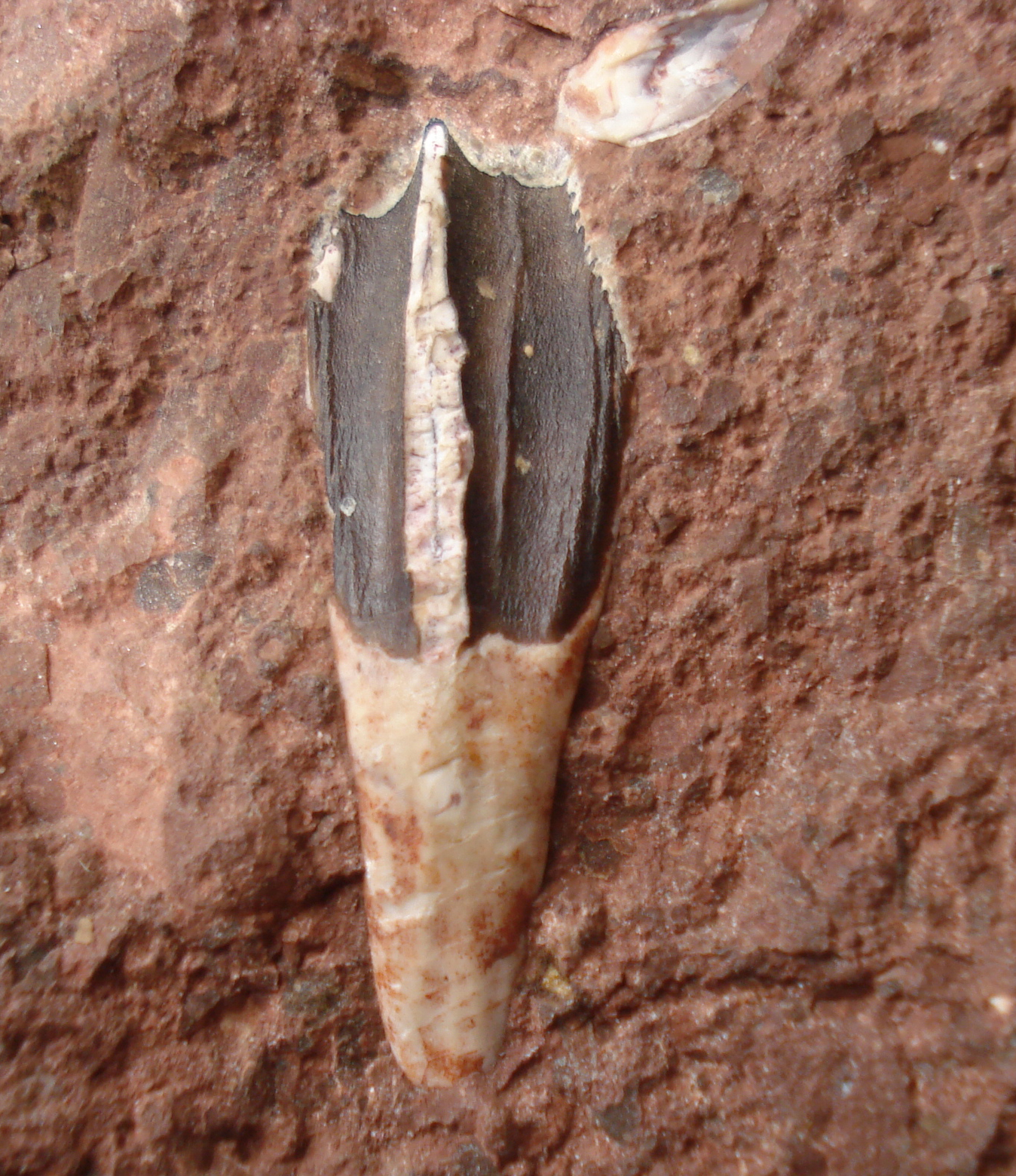 Tooth of Siamodon nimngami in the rock